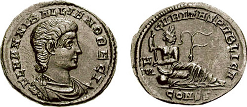 Hannibalianus 335-337 AD. Æ Follis. Constantinople mint. FL HANNIBALIANO REGI, bare-headed, draped and cuirassed bust right SE-CVRITAS PVBLICA, river-god Euphrates reclining right; CONSS. RIC VII 147; LRBC 1034.